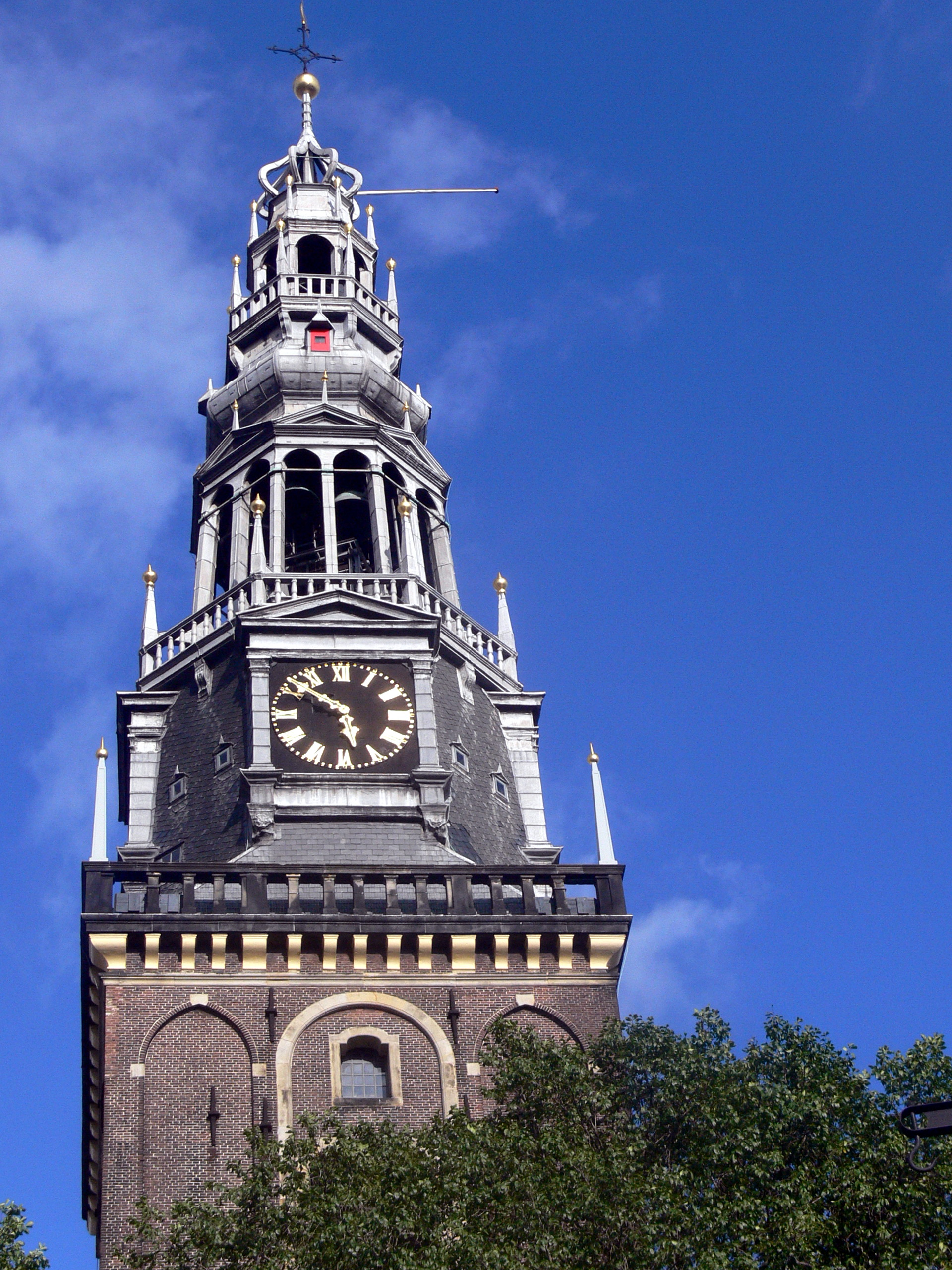 Oude Kerk ( Old Church ) in Amsterdam. Clock tower.